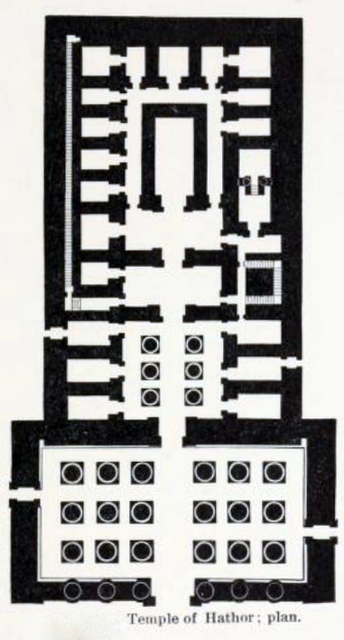 Identifier: historyofallnati02wrig Title: A history of all nations from the earliest times; being a universal historical library Year: 1905 (1900s) Authors: Wright, John Henry, 1852-1908 Subjects: World history Publisher: [Philadelphia, New York : Lea Brothers & company Text Appearing Before Image: Columns in the Temple at Esneh. History of All Nations, Vol. II., page 23k. TEMPLE OF JIATHOR AT DENDERAH. 235 The present structure was begun in the time of Cleopatra, and isadorned with the sculptured portraits of herself and Caesarion, theson whom she bore to Julius Caesar. It was completed in the time ofthe emperors. The front hall, the faQade of which is 126 feet wide,and rises like a pylon above the adjacent rooms, was built by the Text Appearing After Image: @@@ @S@